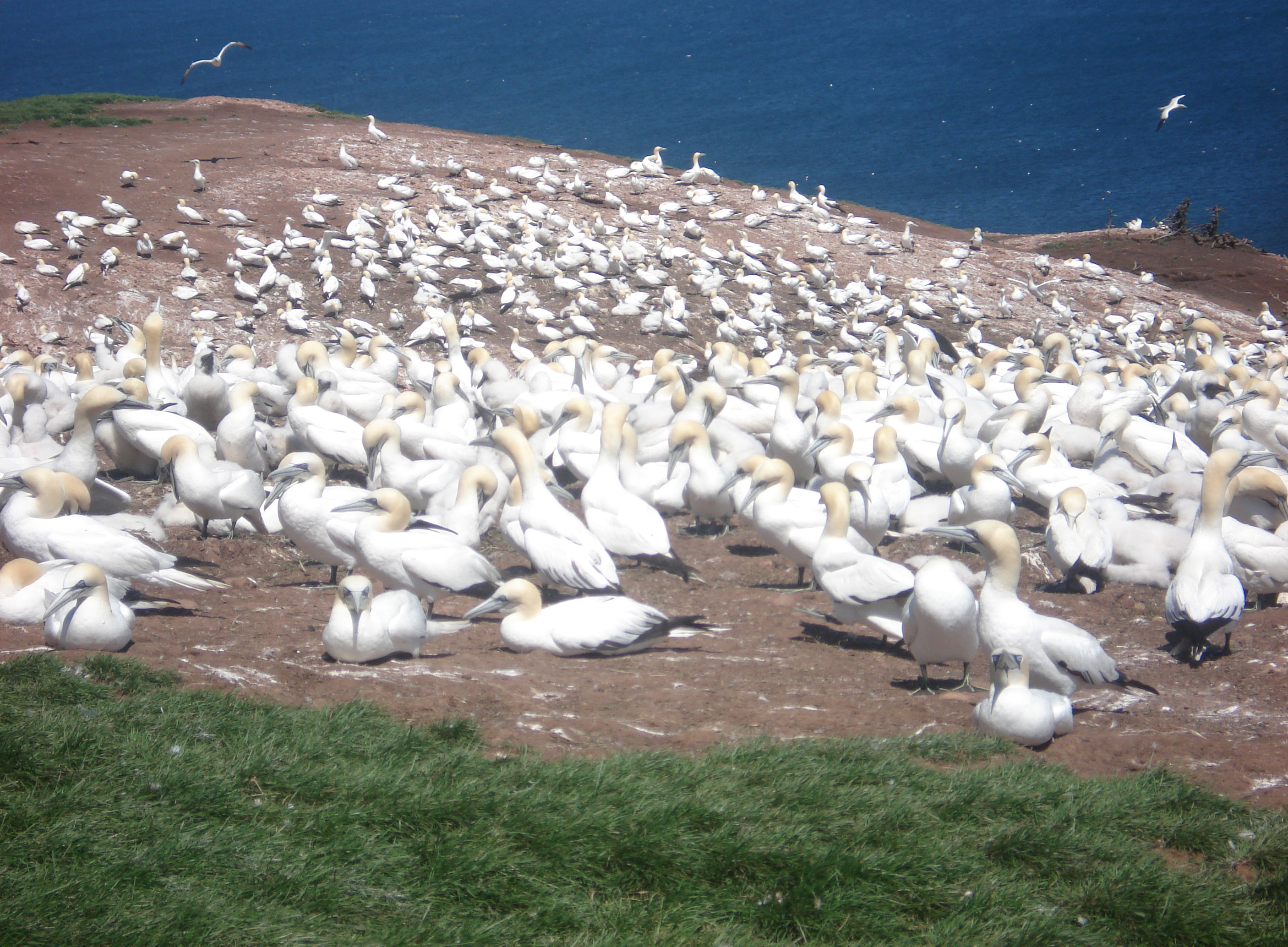 Northern Gannets on Bonaventure Island in Gaspésie (Canada).